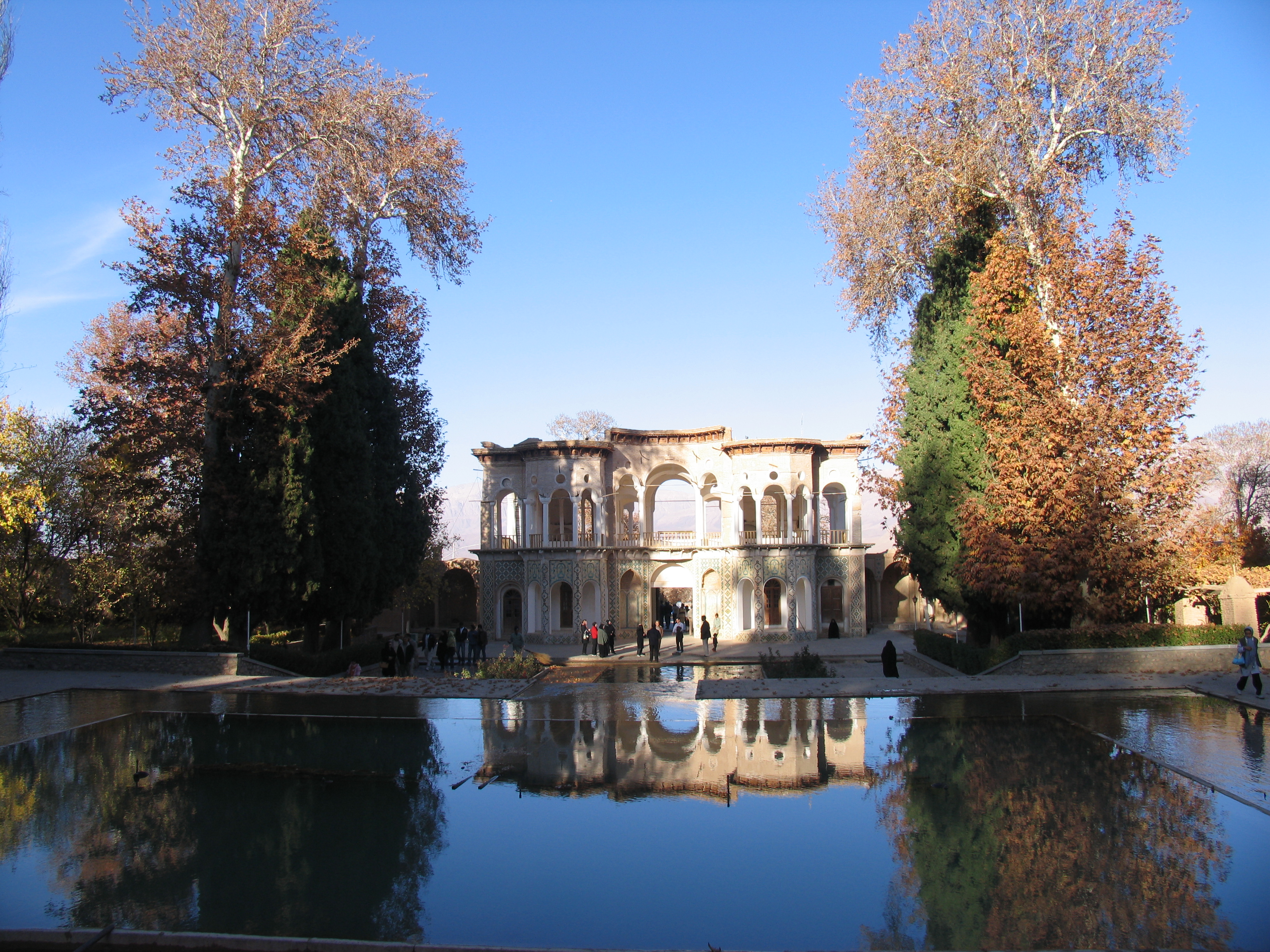 Shazdeh Garden — Mahan, Kerman.